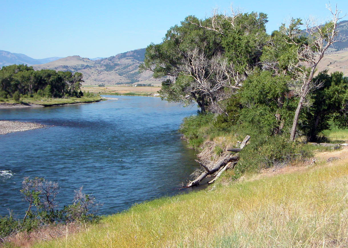 A photo of the Yellowstone River, flowing through Paradise Valley, not far off of US Highway 89.